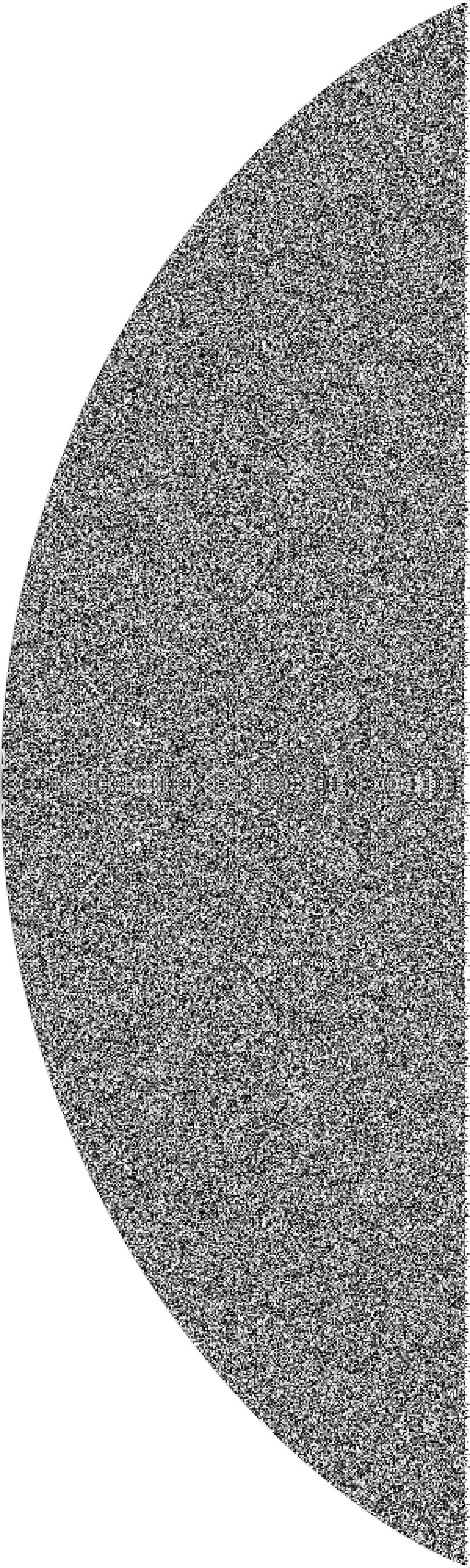 1000th row of Pascal's triangle. One coefficient per row, aligned to the right, one digit per pixel, colored in 10 shades of gray from white (digit 0) to black (digit 9).